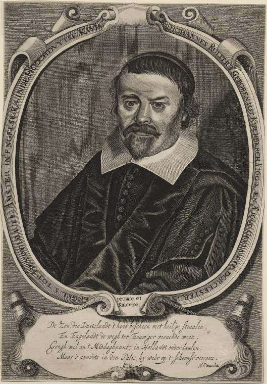 Portrait of Johannes Rulicius (1602–1666), German Protestant minister.